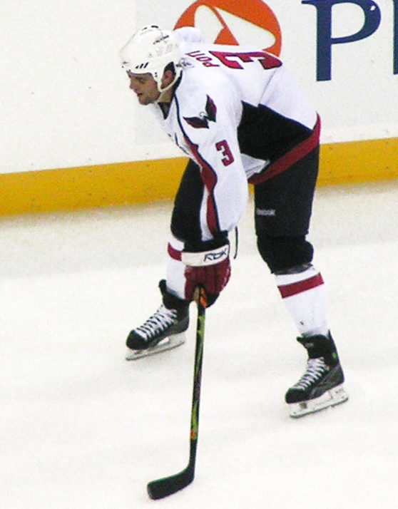 Tom Poti plays with Capitals ant New Jersey